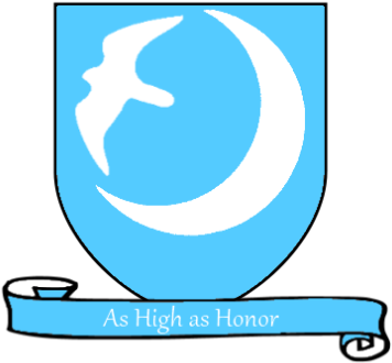 A fictional coat of arms. The coat of arms of House Arryn. Shows a falcon silhouette and a crescent moon, both in white, on a light blue field. Underneath is a scroll bearing a motto: As High as Honor. The following Commons images were used to create this image: File:Old French Escutcheon.svg by Masur (talk · contribs) File:Coat-elements-2.png by Qyd (talk · contribs) (scroll on bottom) File:PeregrineFalconSilhouettes.svg by Shyamal (talk · contribs) (silhouette on right) File:Crescent 2 (PSF).png by Pearson Scott Foresman